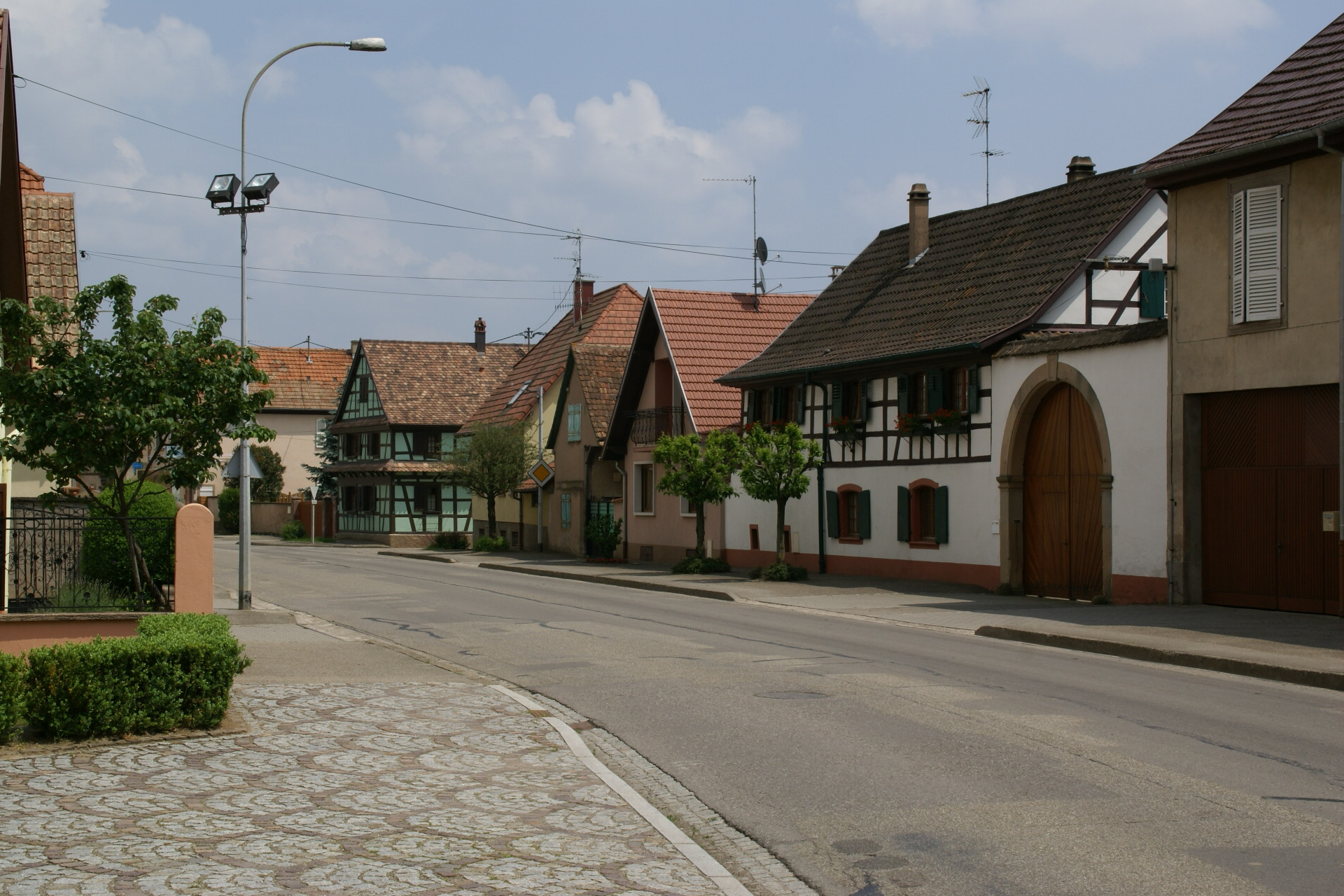 Rue Principale (Main Road) in Meistratzheim, Alsace, France